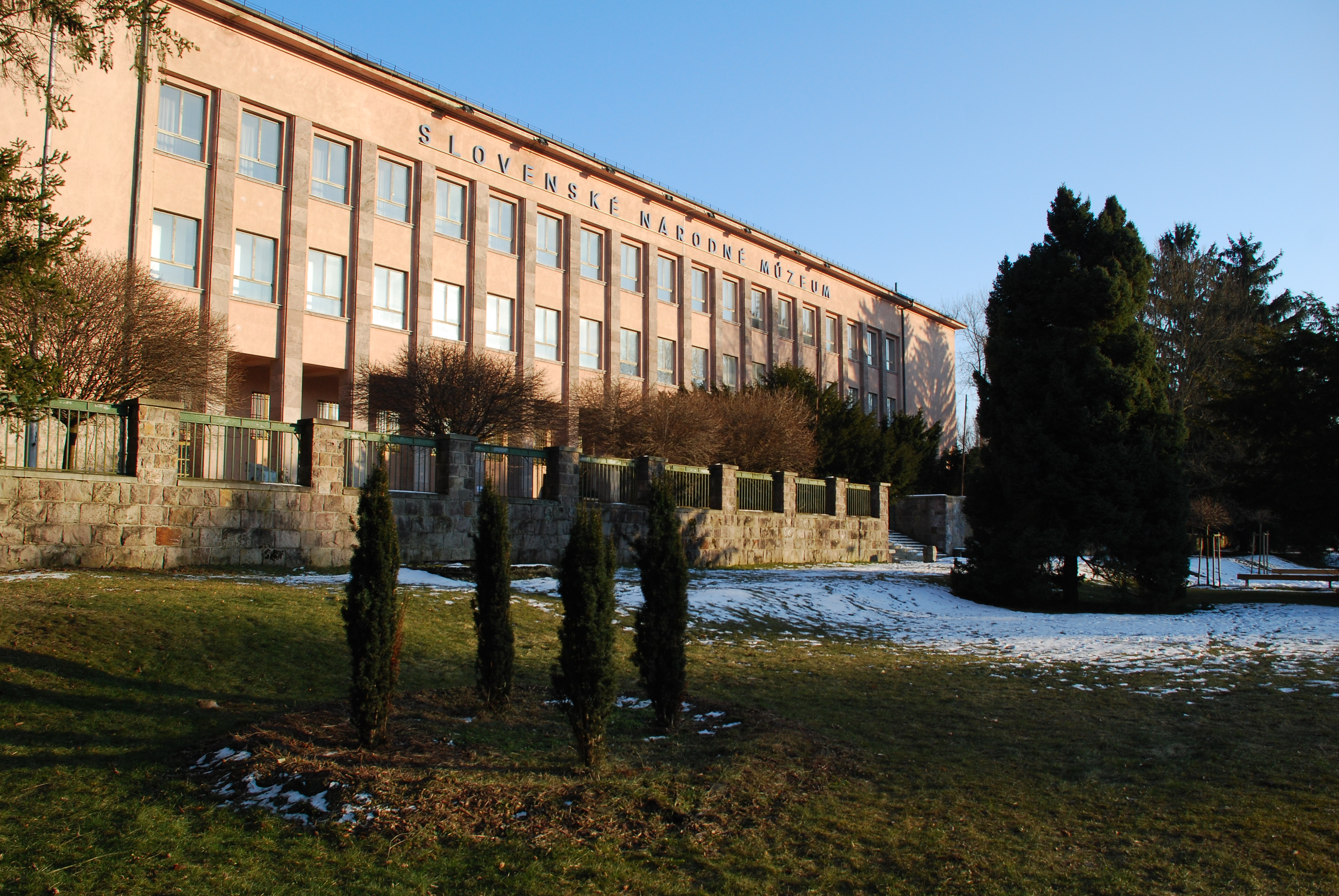 Slovak National Museum, Ethnographic Museum, Martin, Slovakia